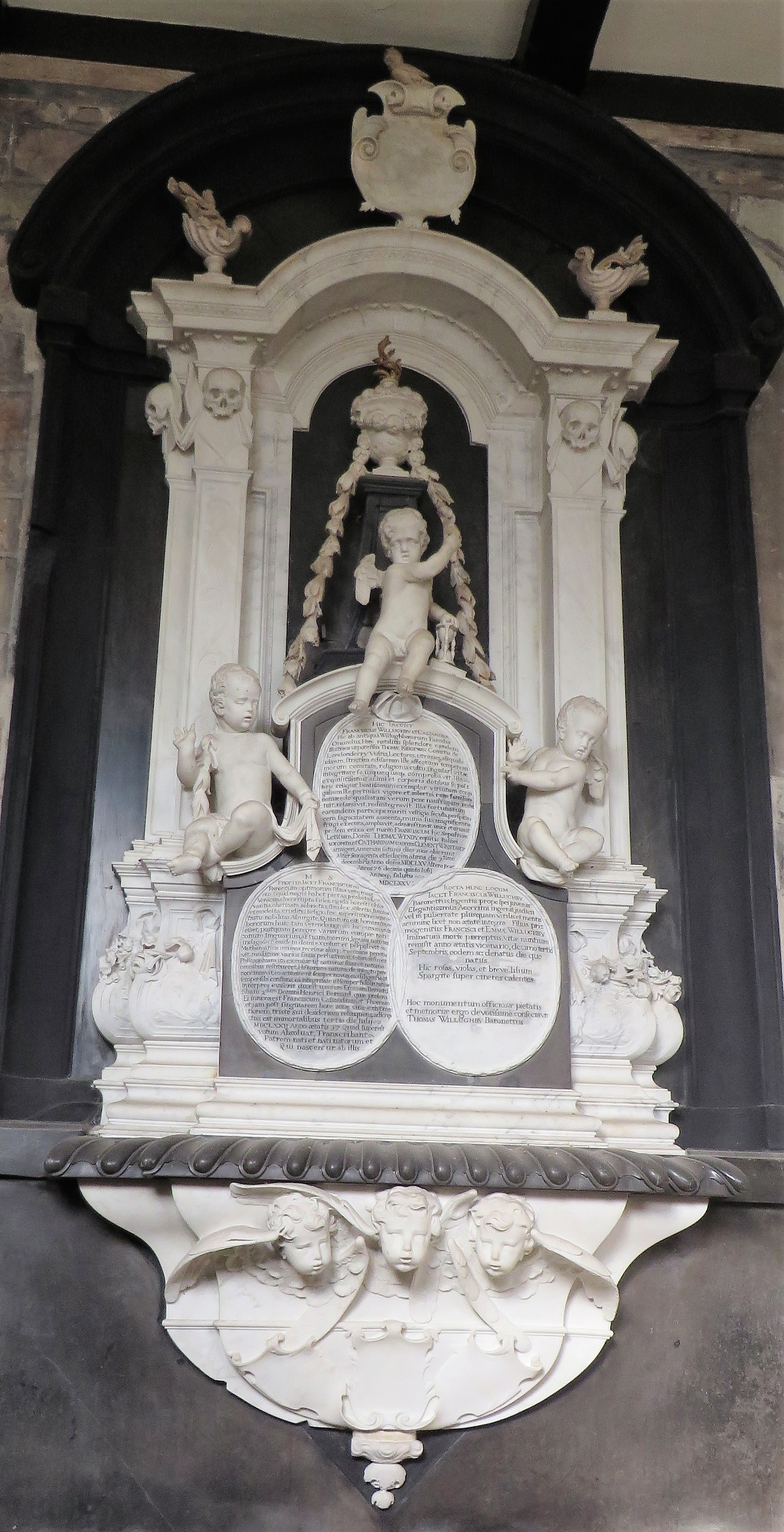 Willoughby family memorial in St John the Baptist church, Middleton erected by Thomas Willoughby, 1st Baron Middleton (9 April 1672 – 2 April 1729)